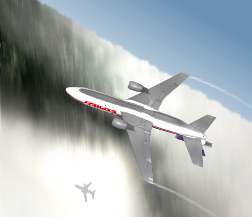 FedEx Flight 705 in a radical, downward banking turn